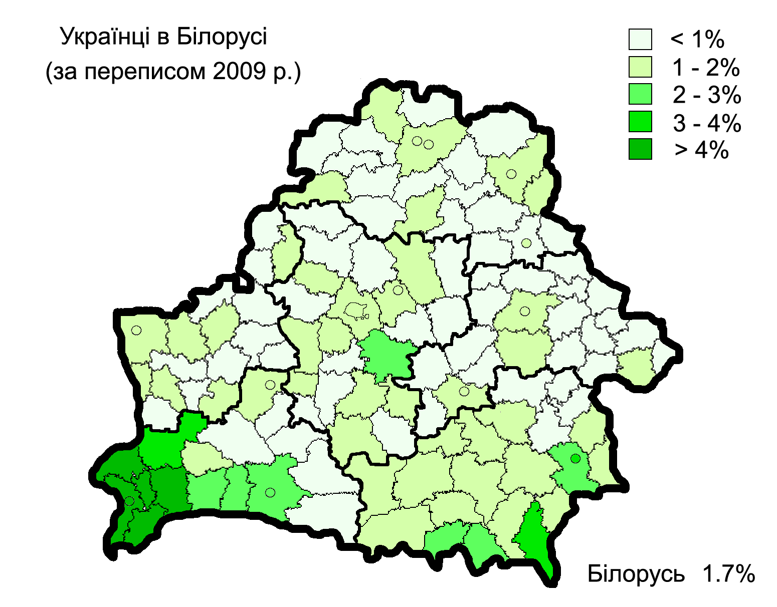 Ukrainians in Belarus according to the 2009 Belarus Census